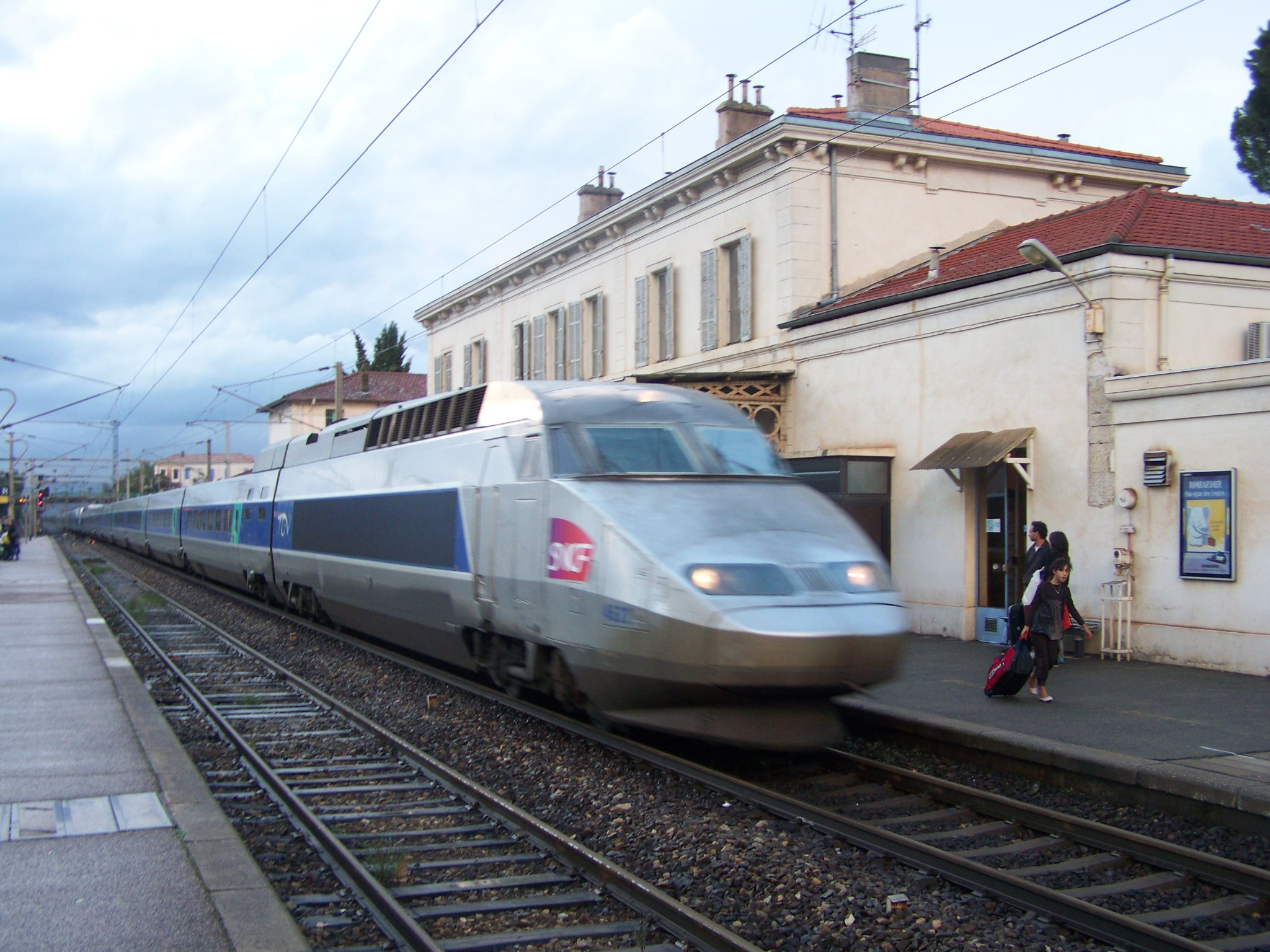 French TGV coming from Lille in Nord and bound for Nice (Alpes-Maritimes) is stopping at Les Arcs-Draguignan railway station, in Var.